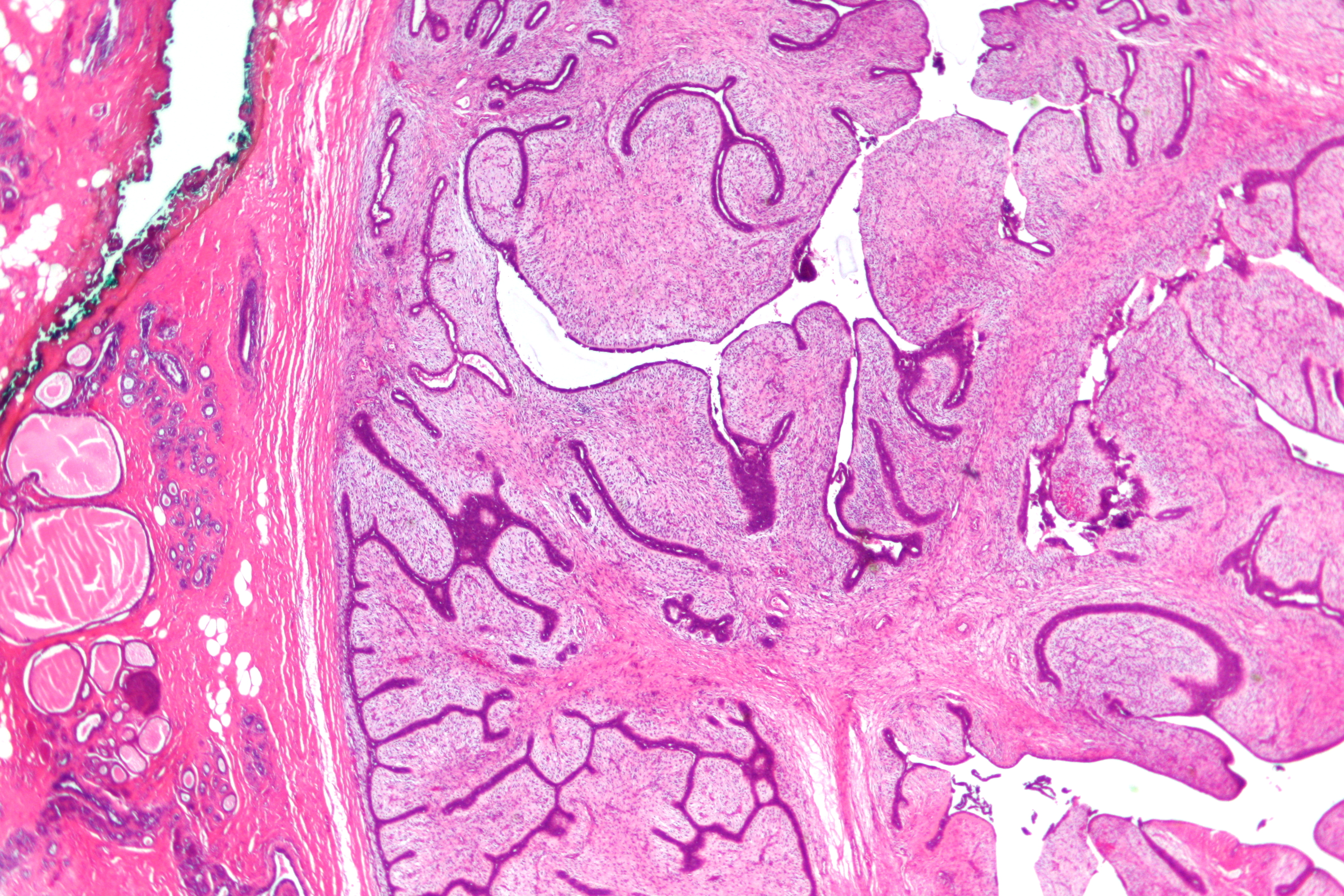 Very low magnification micrograph of a phyllodes tumour, also spelled phyllodes tumor and also known as cystosarcoma phyllodes, is a tumour of the breast that is usually benign and occasionally malignant. H&E stain. On the left of the images one can see normal breast tissue and fibrocystic change. The green seen in the image is ink to mark the surgical margin. Related images Very low mag. Low mag.